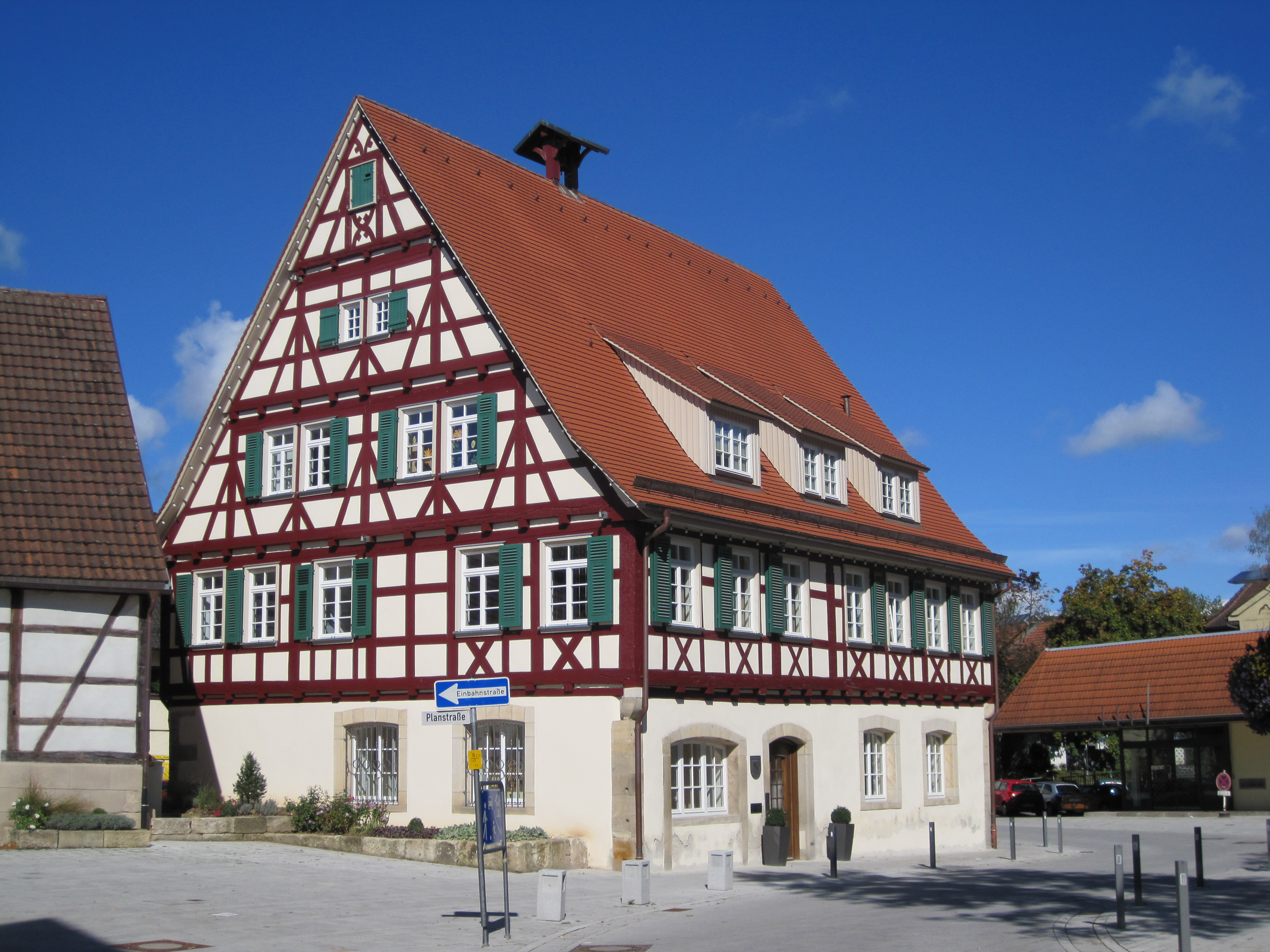 town hall Neckartenzlingen, Germany